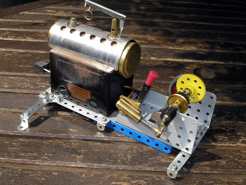 A Mamod SP3 steam engine with extra gears on the countershaft and Meccan outriggers.